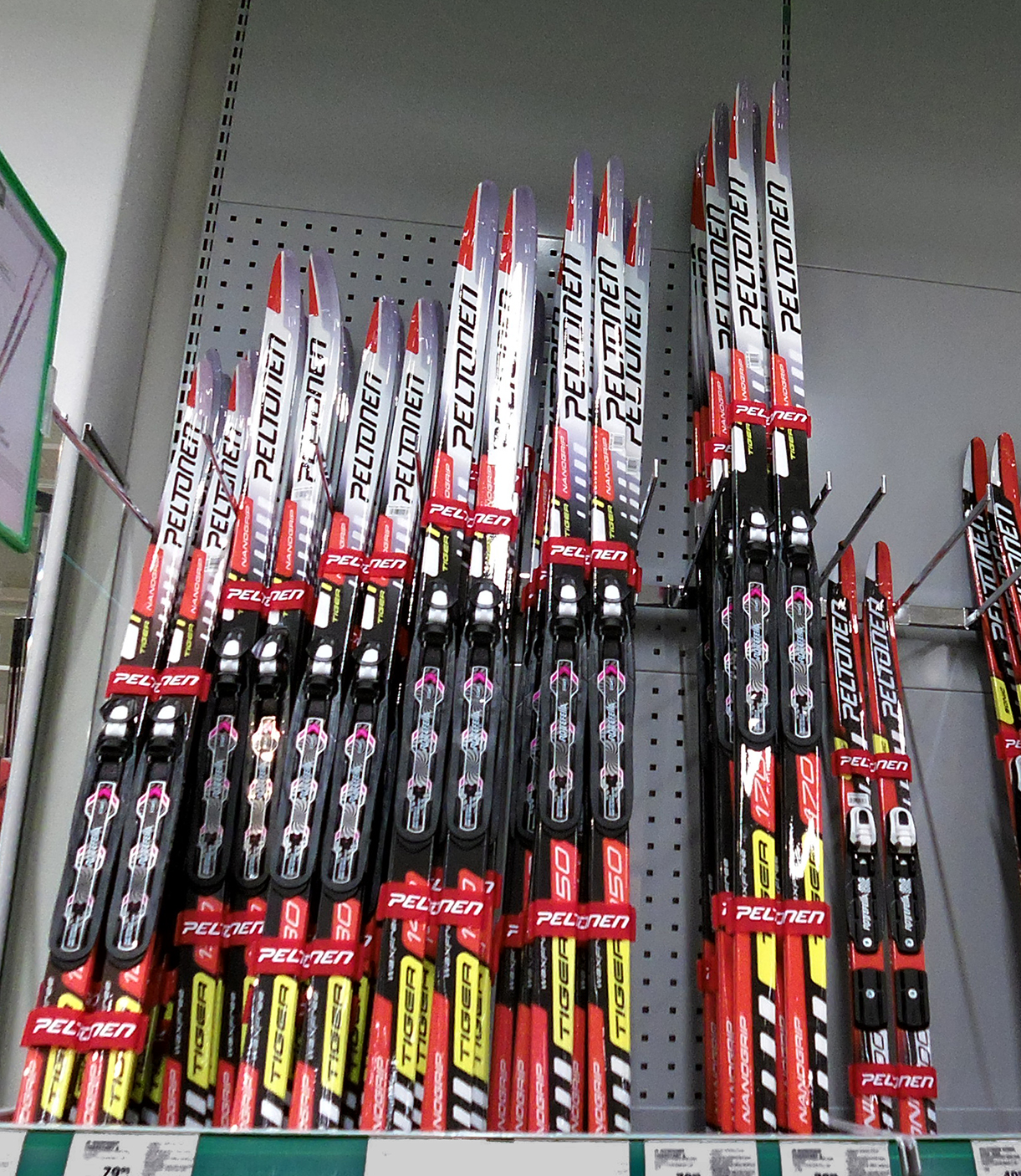 Peltonen skis in Prisma supermarket, Jyväskylä.